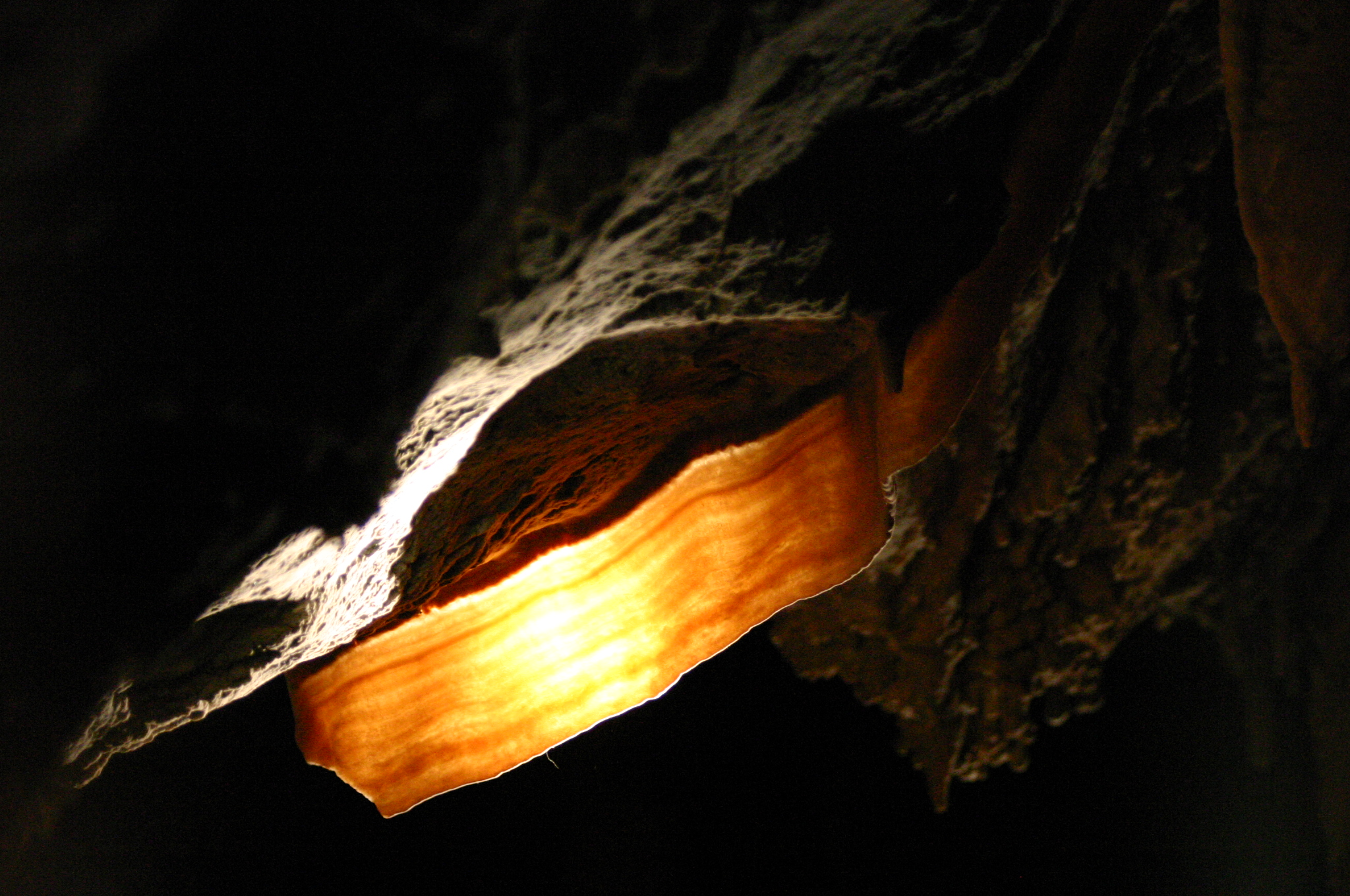 A back-illuminated cave bacon. Film of water flows from a crack in the cave ceiling, depositing layers of thin translucent drapery that resemble bacon.